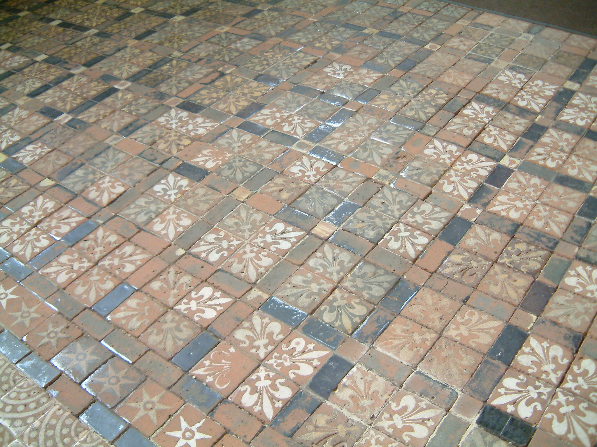 Winchester Cathedral, Winchester, England, United-Kingdom